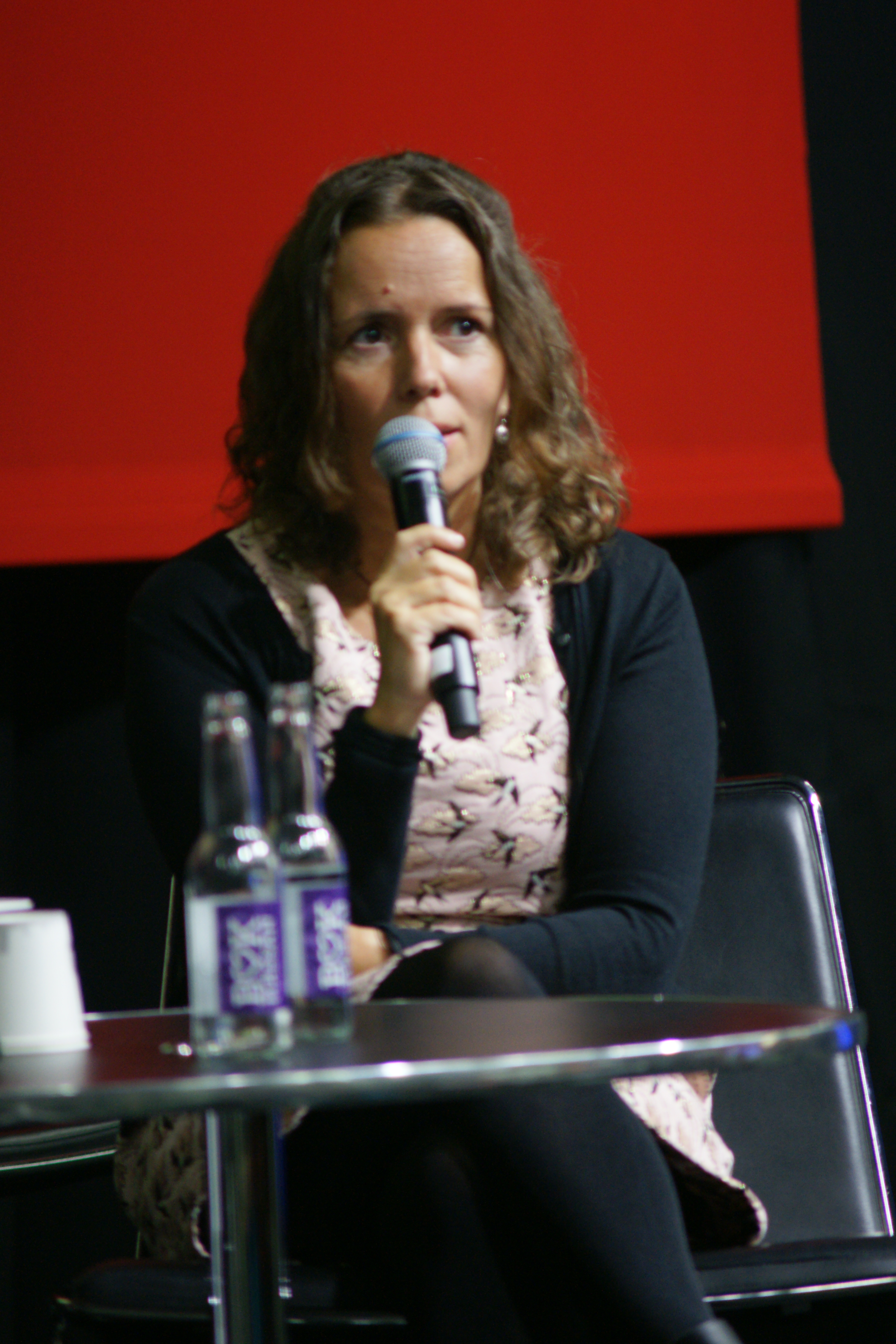 Swedish writer Camilla Lagerqvist at Göteborg Book Fair 2018.